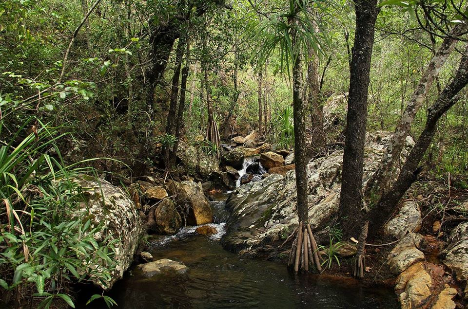 Screw pines along the road to Chikukwa, at the foot of Chimanimani Mountains in Mozambique